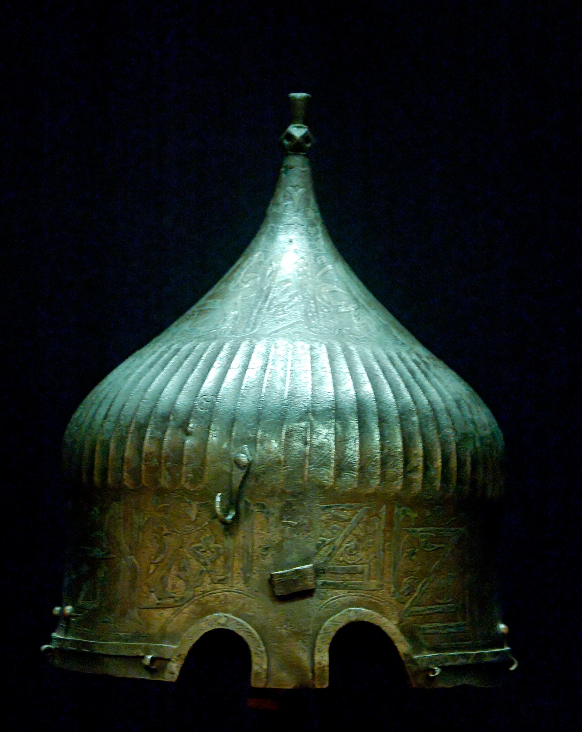 Turkmen helmet, 15th century. Iron with matted, engraved and silver-inlaid decoration. Bears the hallmark of the Ottoman arsenal in Saint-Irene.